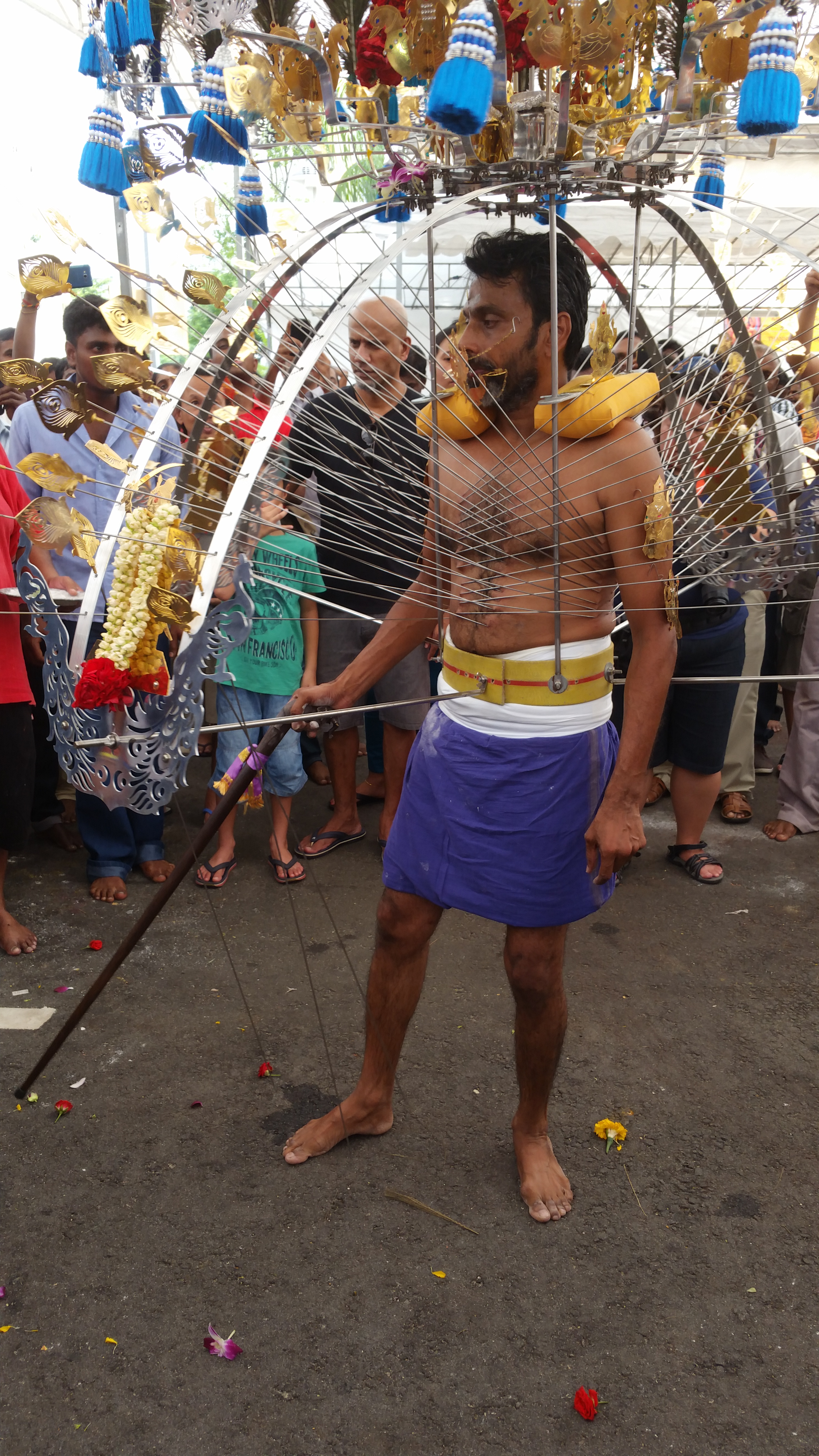 Kavadi - Singapore Thaipusam 2016